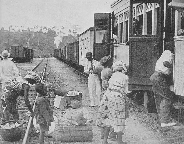 Matadi-Kinshasa Railway in 1930s